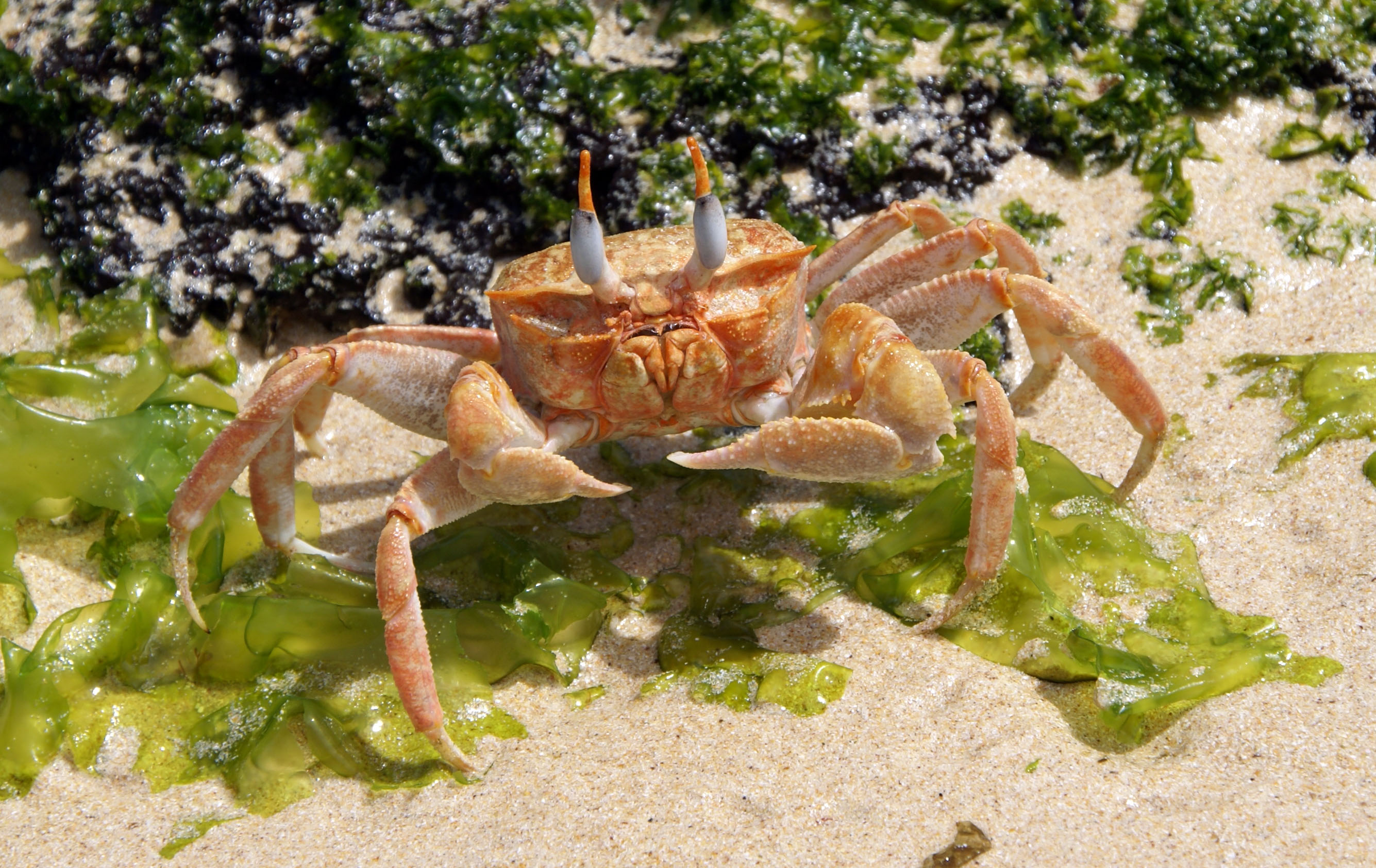 Ghost crab Santa Cruz, Cerro Dragon, Galapagos